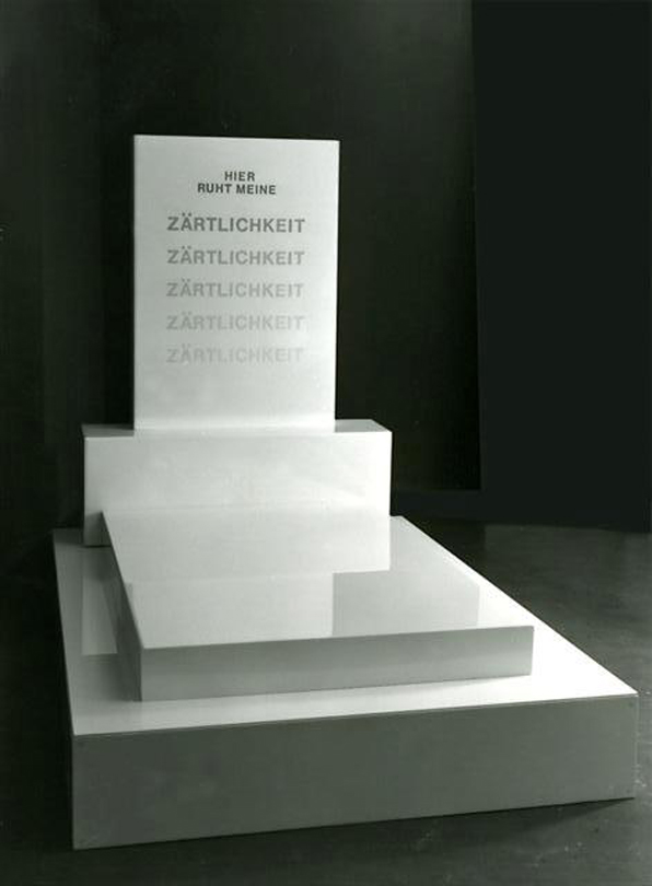 "Here rests my tenderness" object, acrylic, artwork by Renate Bertlmann, 1976